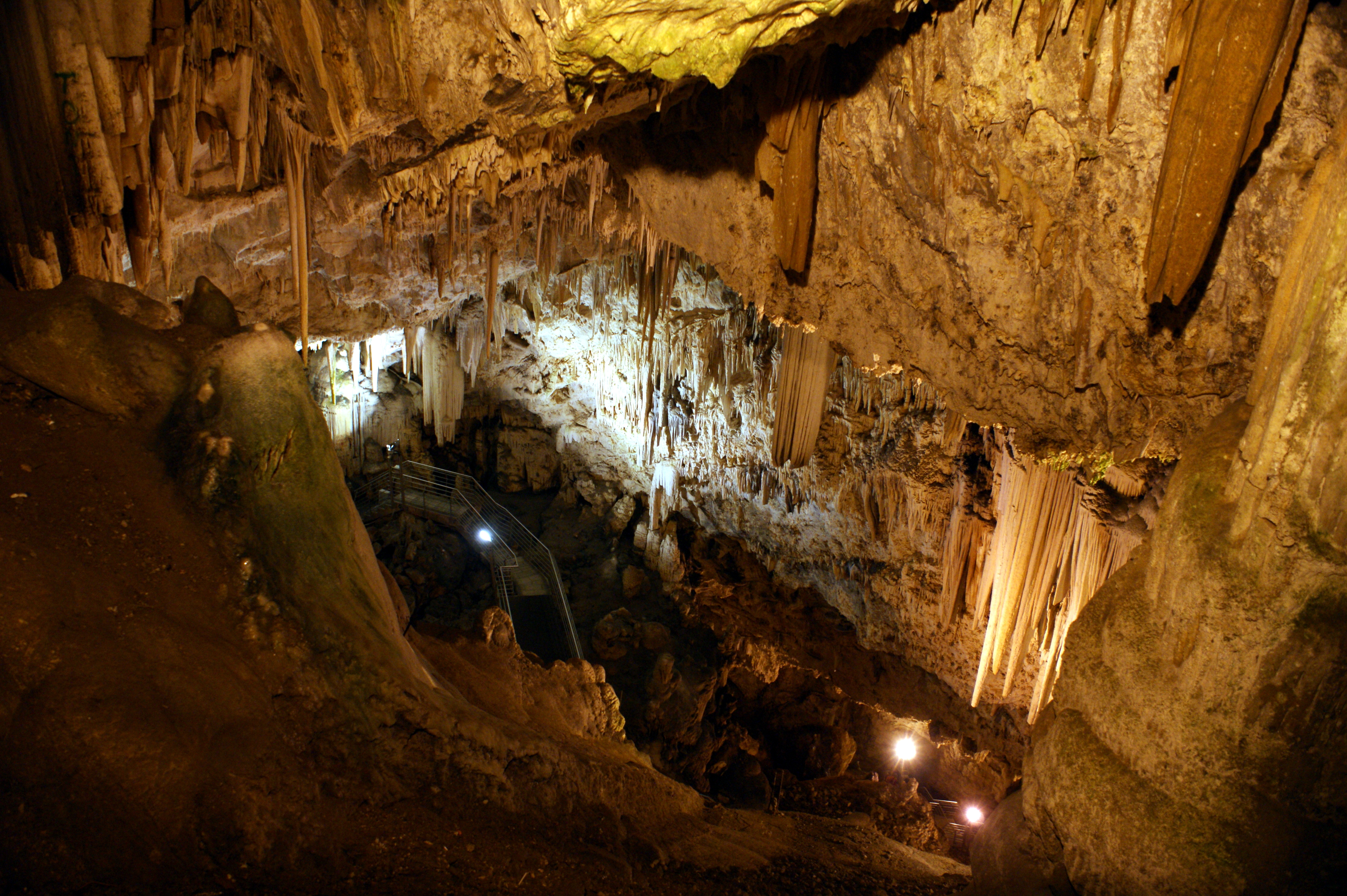 View into Antiparos Cave